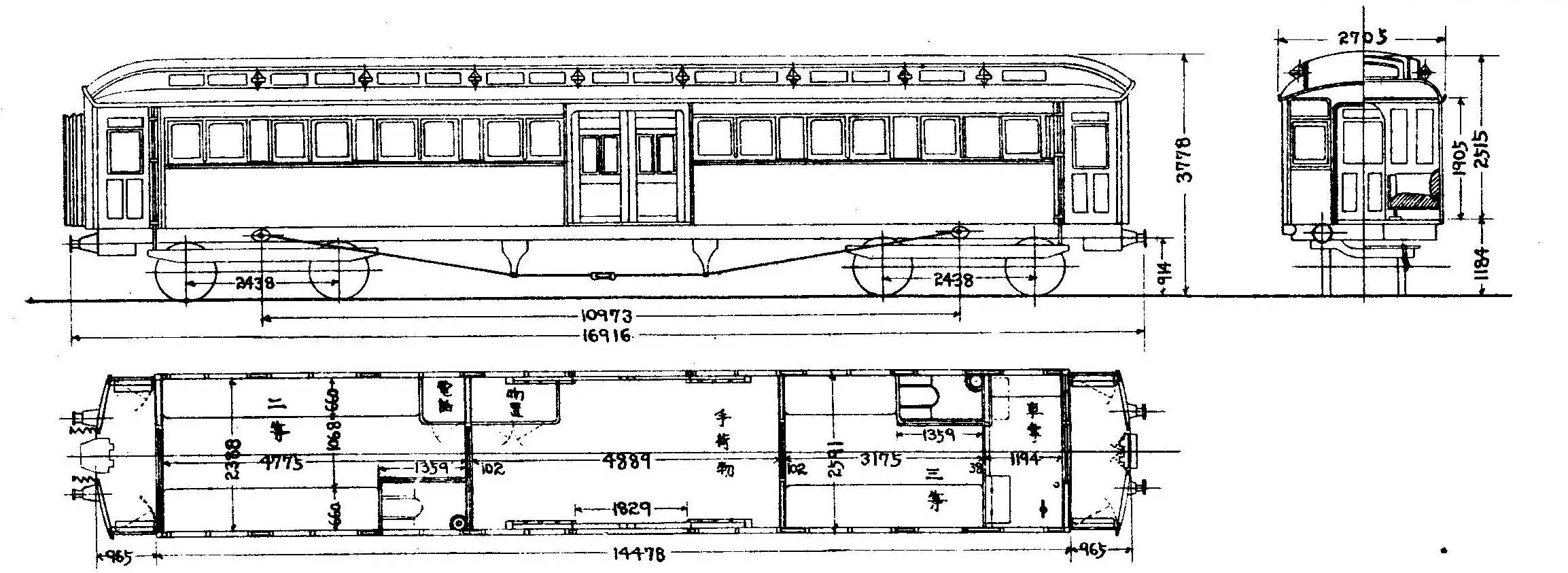 Type drawing of JGR's Horohani5995 type passenger car (Gubusha Nos.230, 231)